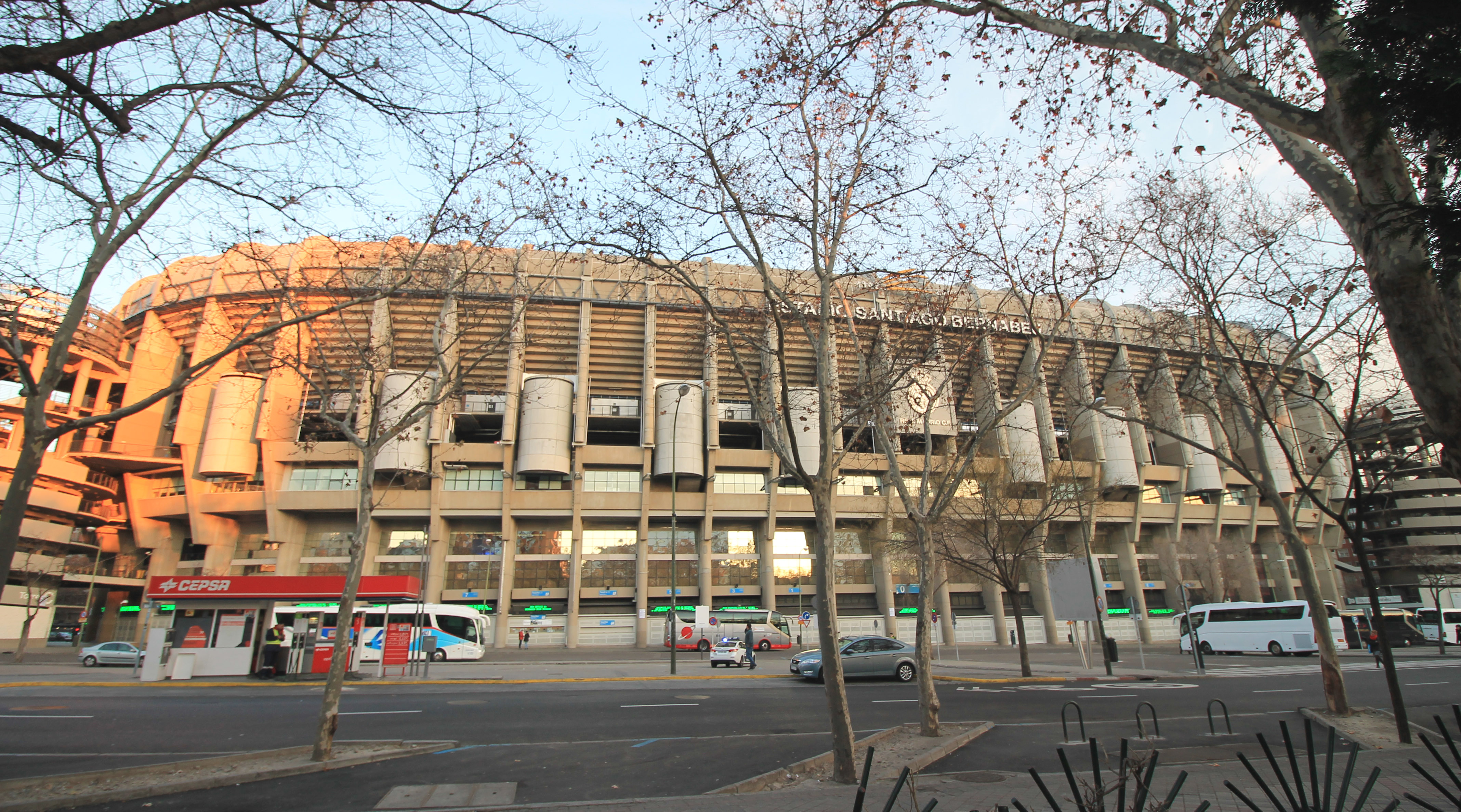 West façade of Santiago Bernabéu Stadium in Madrid (Spain).